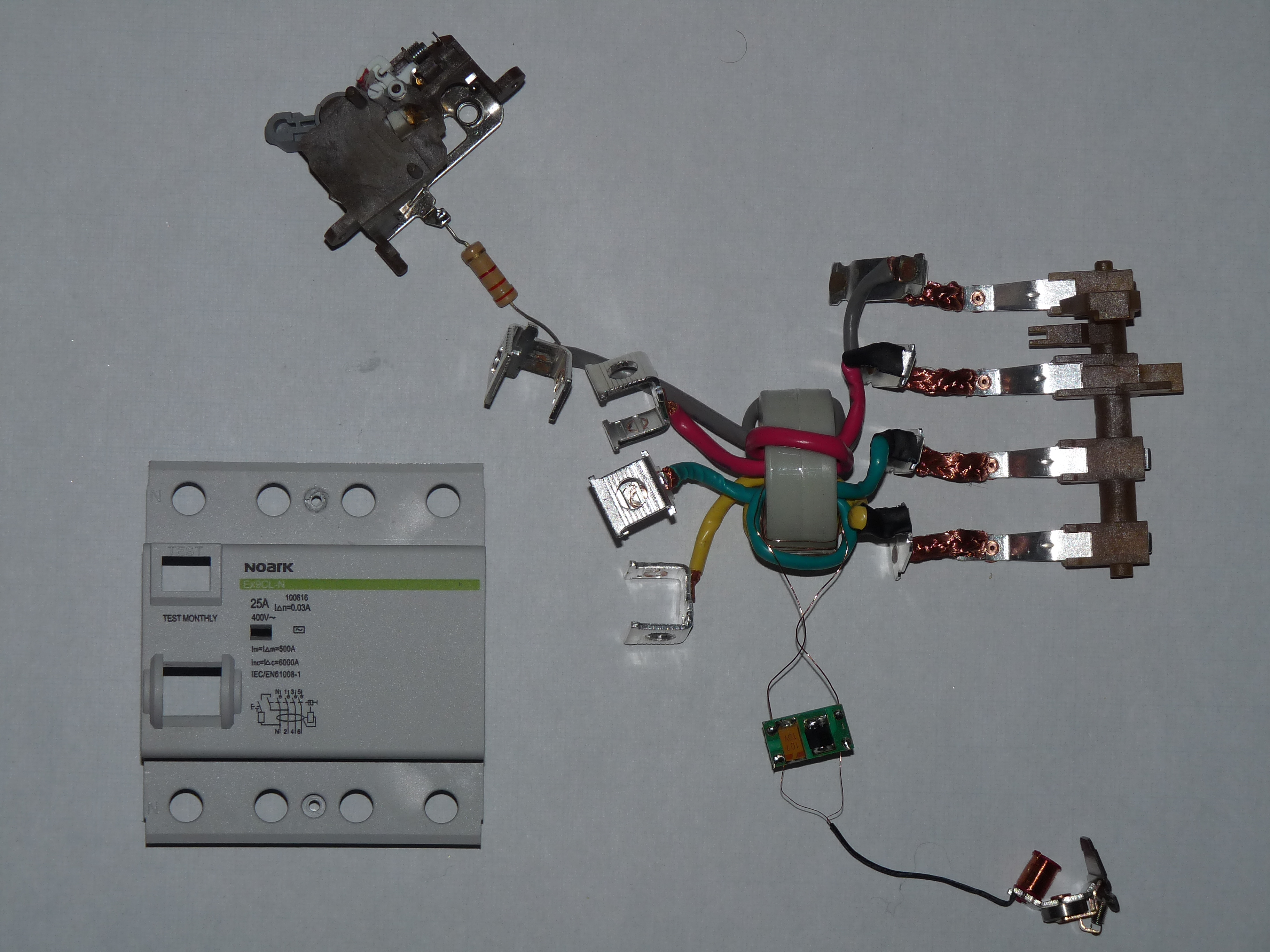 Disassembled residual current device.